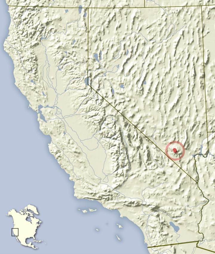 Distribution map of Palmer's chipmunk